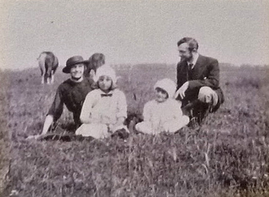 Fritz de Brouckère (1879-1928), a Belgian painter and his family in a meadow in Knokke, Belgium